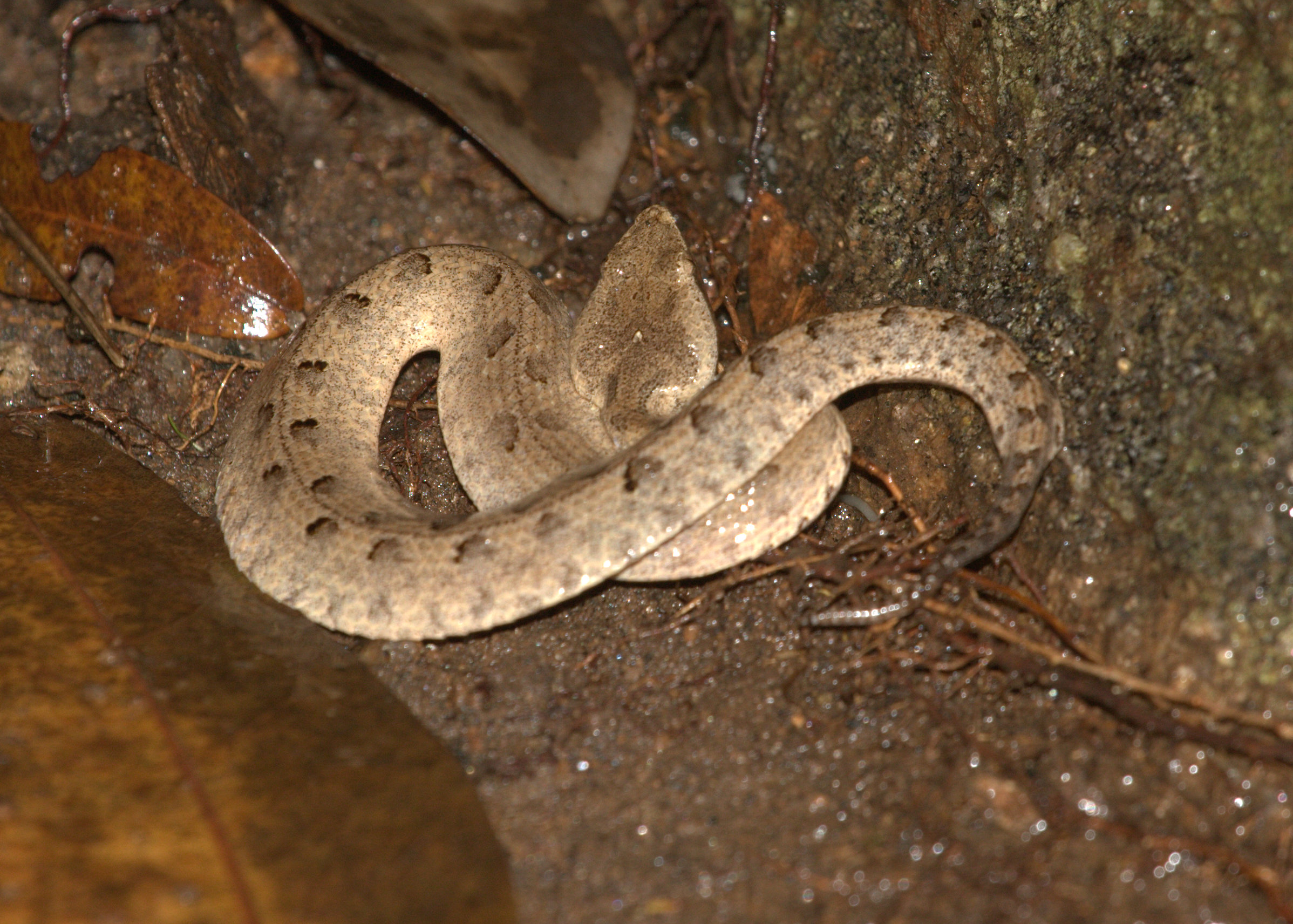 At Kandalama